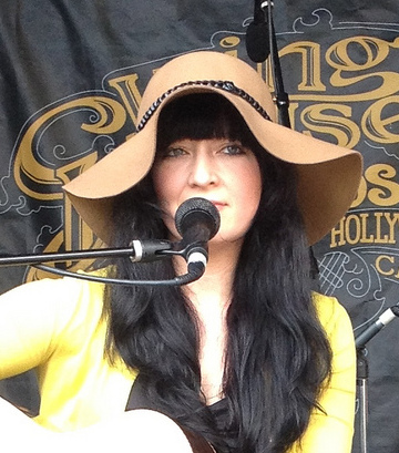 Jasmine Ash performing at Manic Fest Destiny on March 15, 2012 at Rusty's in Austin, Texas USA.